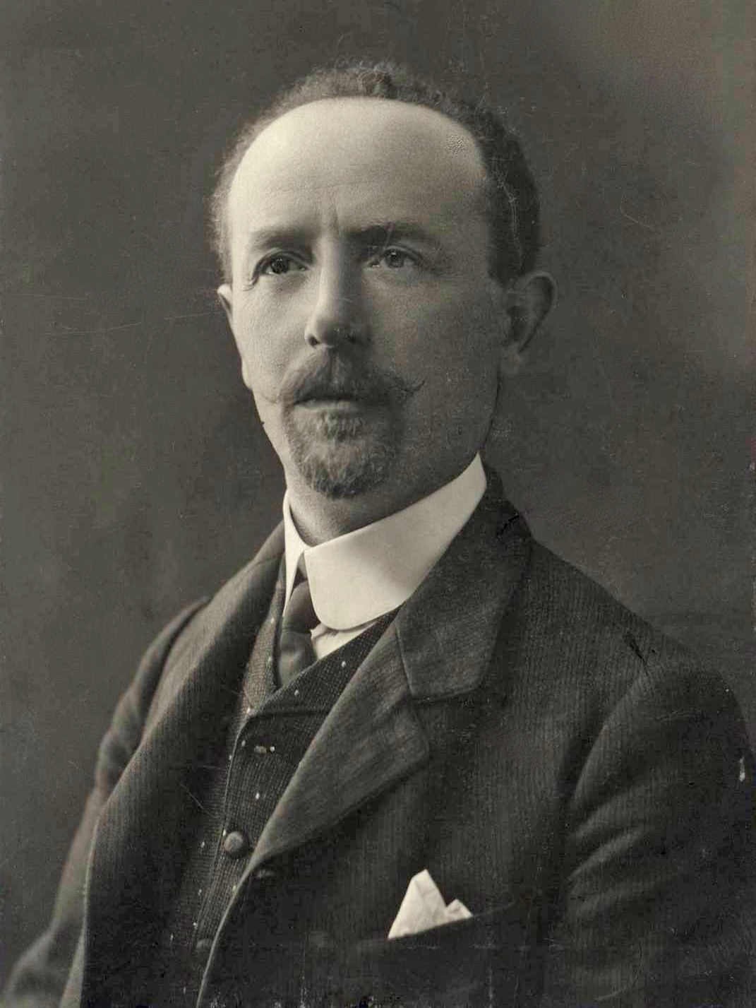 Picture of Abraham Ludvipol